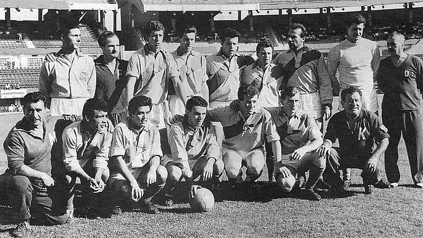 Arsenal de Sarandí 1962 team, which became champion that year.